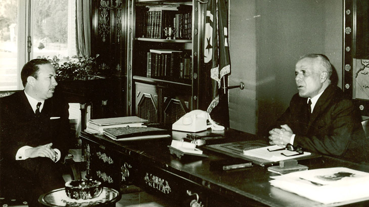 Habib Bourguiba and Beji Caïd Essebsi